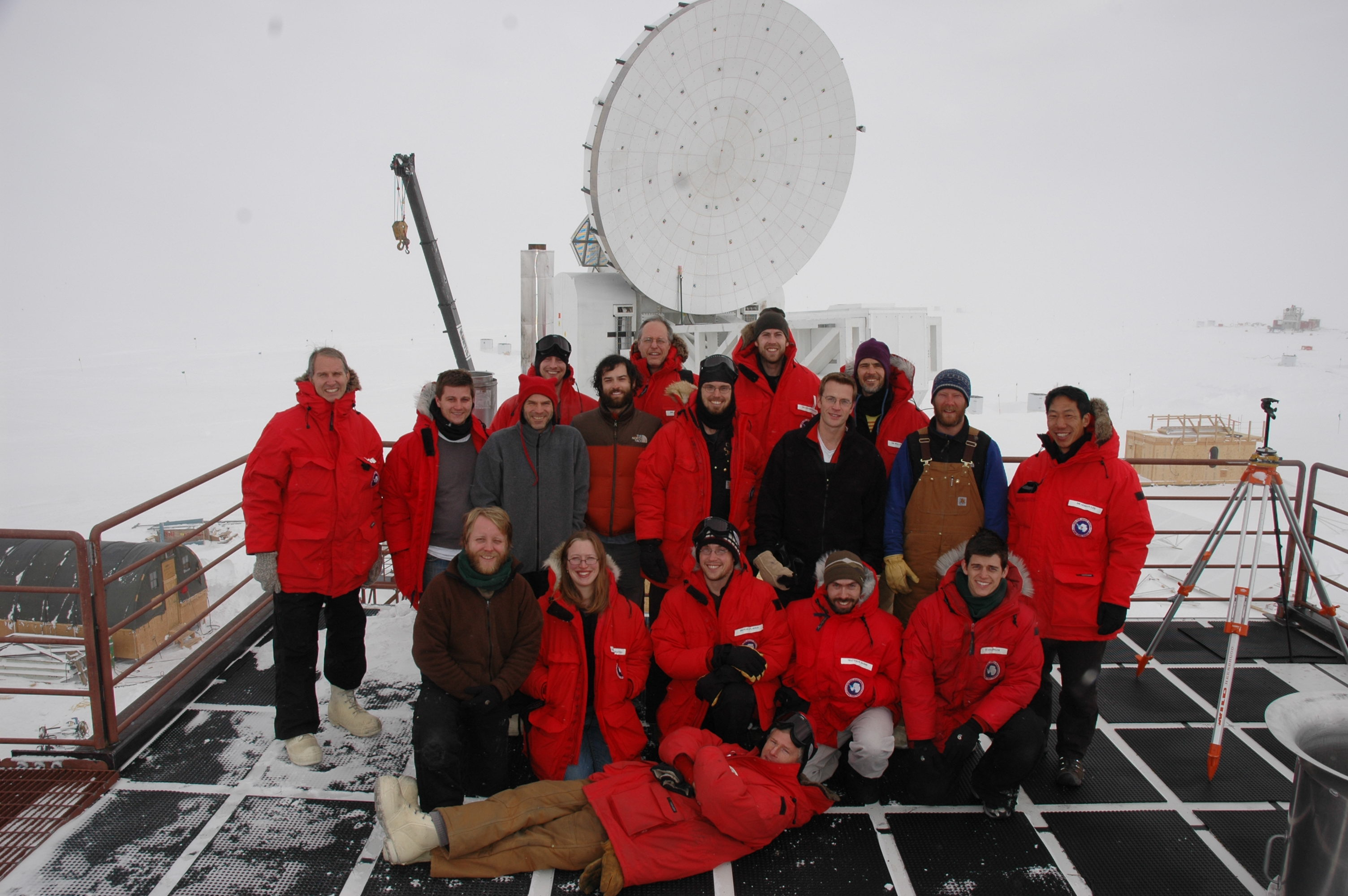 The South Pole Telescope and collaboration group.